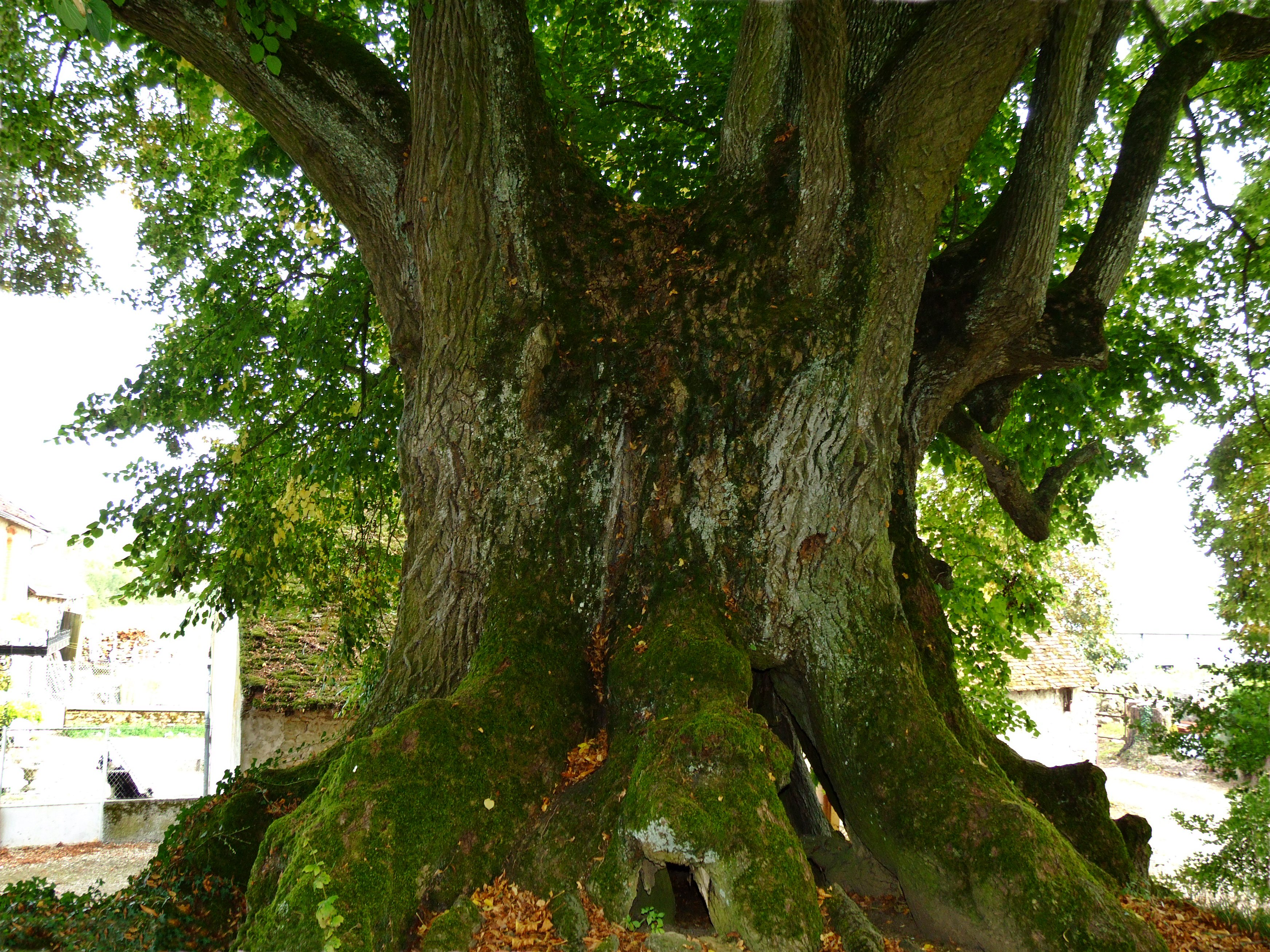 Veilly (Côte-d'Or, France): XVIIth century linden